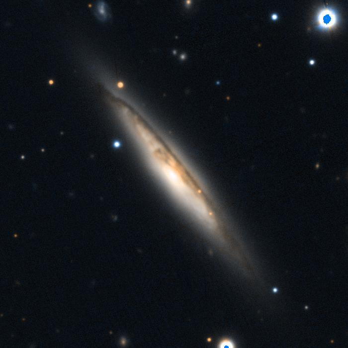 PanSTARRS image of NGC 669.